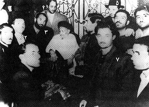 1) Haj Hossein Alam, 2) Taher Haj Rezaie, 3) Shaban Jafari, 4) Hossein Mehdi Qassab, 5) Teyyeb Haj Rezaie, 6) Akbar Haj Rezaie, 7) Seyyed Akbar Kharrat.